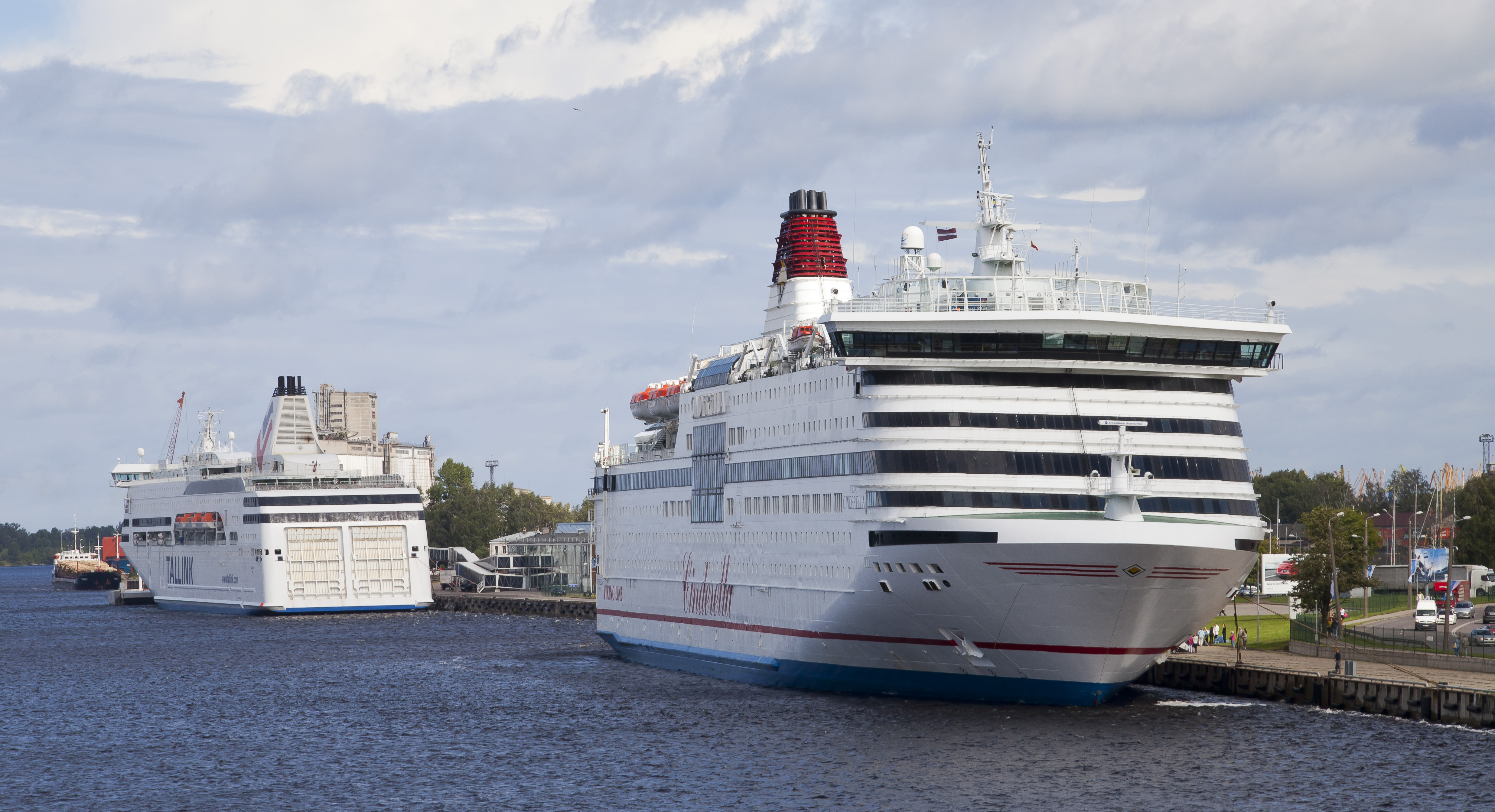 Cruises at the dock of Riga, Latvia